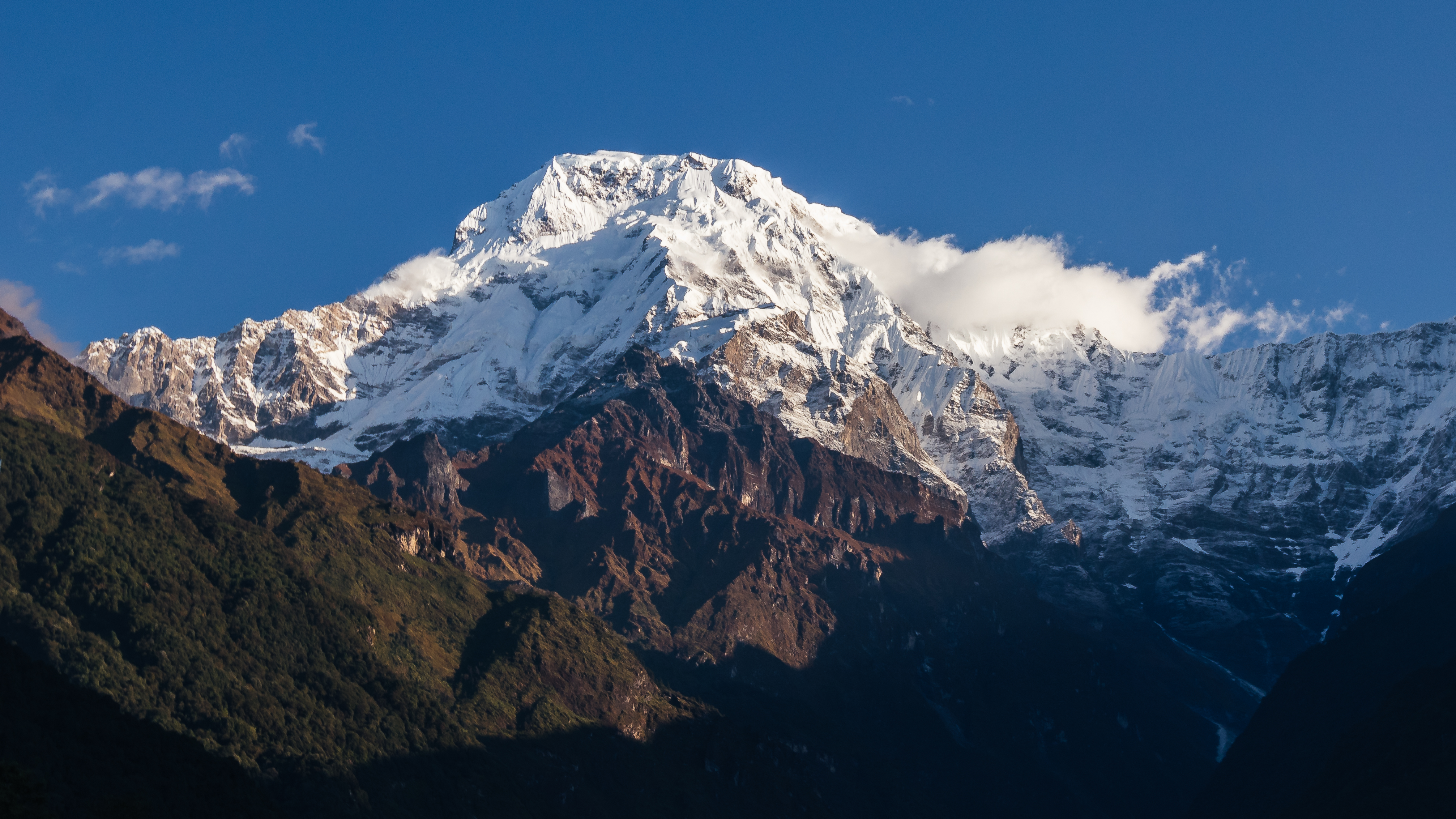 Annapurna South, also called Annapurna Dakshin or Moditse, is a mountain in the Annapurna Himal range of the Himalayas, and the 101st-highest mountain in the world. It was first ascended in 1964, and is 7,219 metres tall. The nearby mountain Hiunchuli is in fact an extension of Annapurna South.